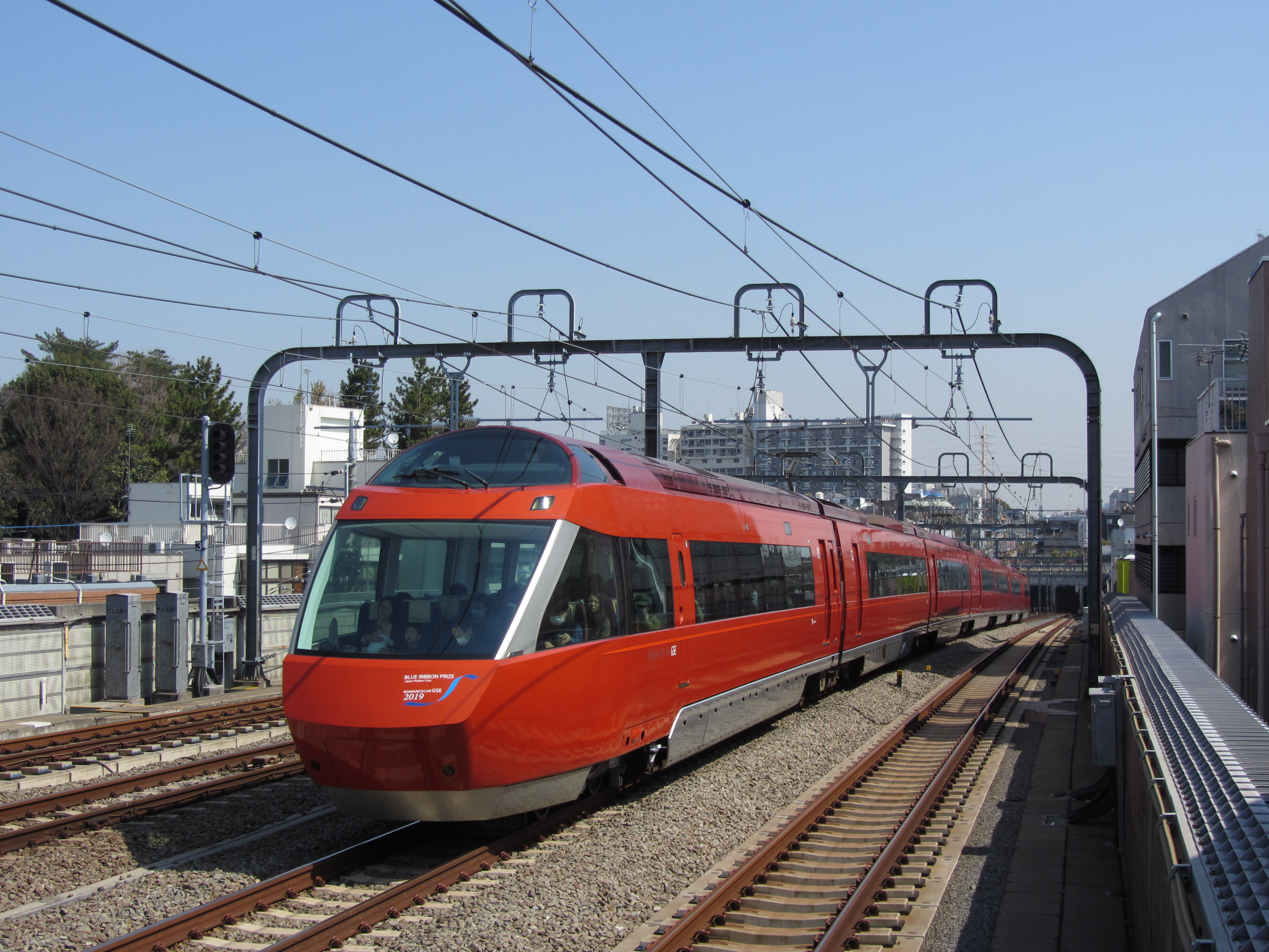 Odakyu Electric Railway 70000 series EMU at Umegaoka Station